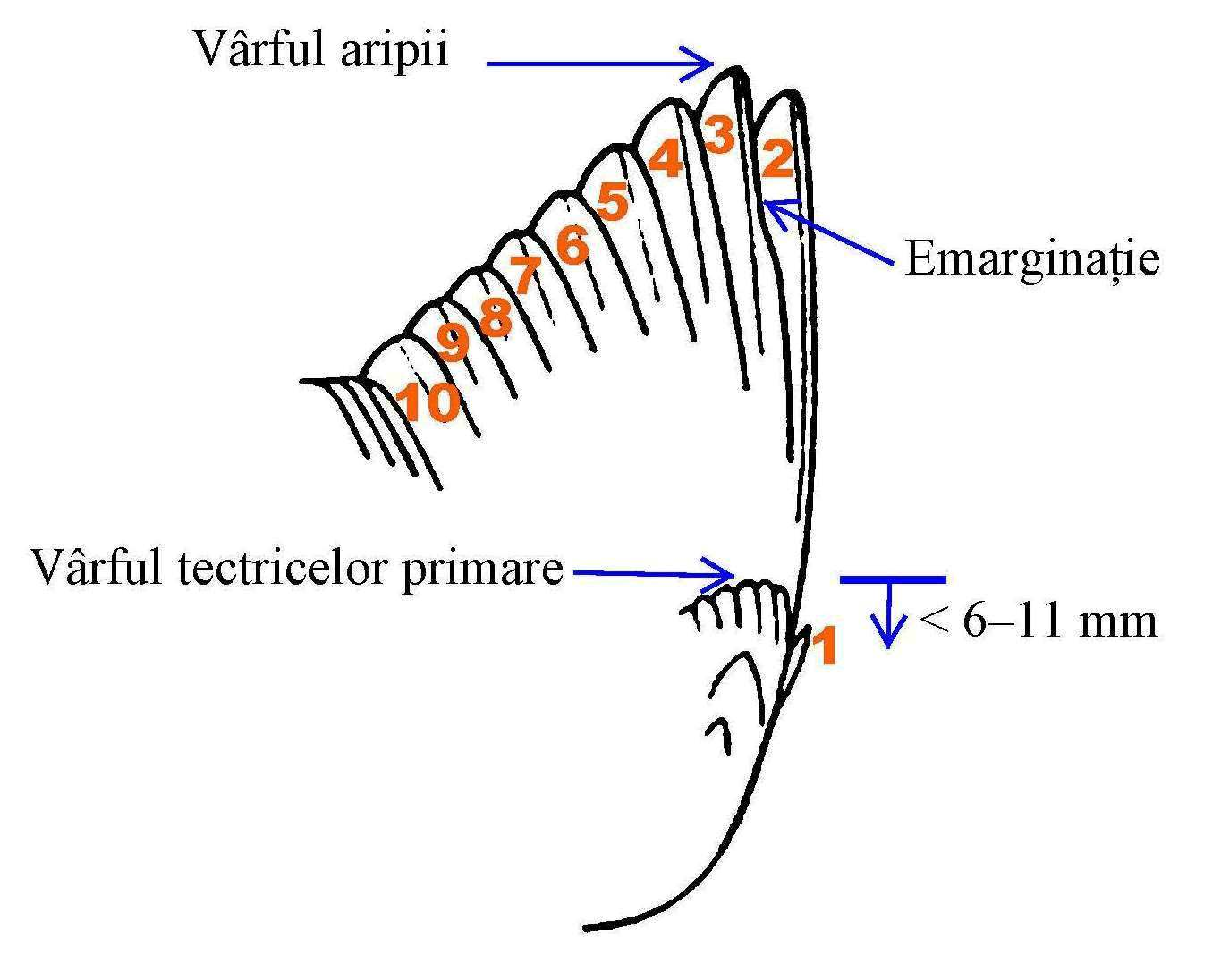 Luscinia luscinia. Wing formula